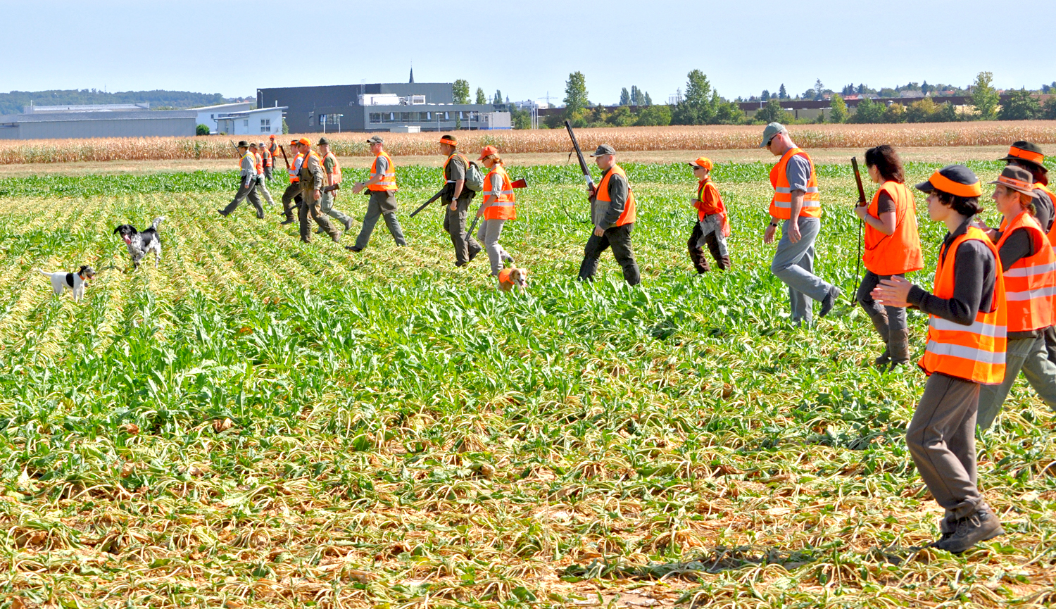 German and American hunters and volunteers make their way through a sugar beet field near Wiesbaden Army Airfield in search of foxes that have been raiding local farmers. (Photo Credit: Karl Weisel (USAG Wiesbaden))